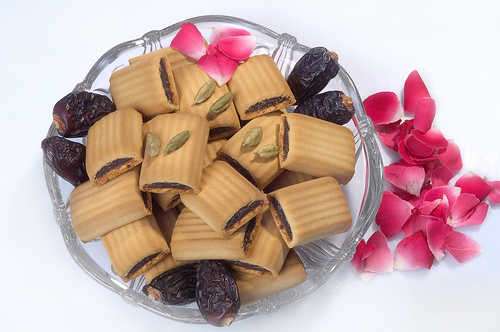 Kleicha are iraqi cookies filled with dates and baked for Ramadan and Eid. Also a fun snack to eat